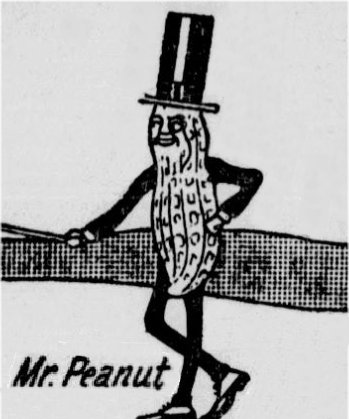 crop and derivative from Planters ad